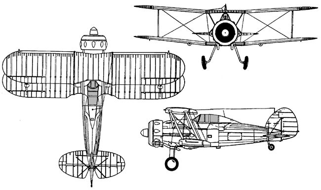 Gloster Gladiator